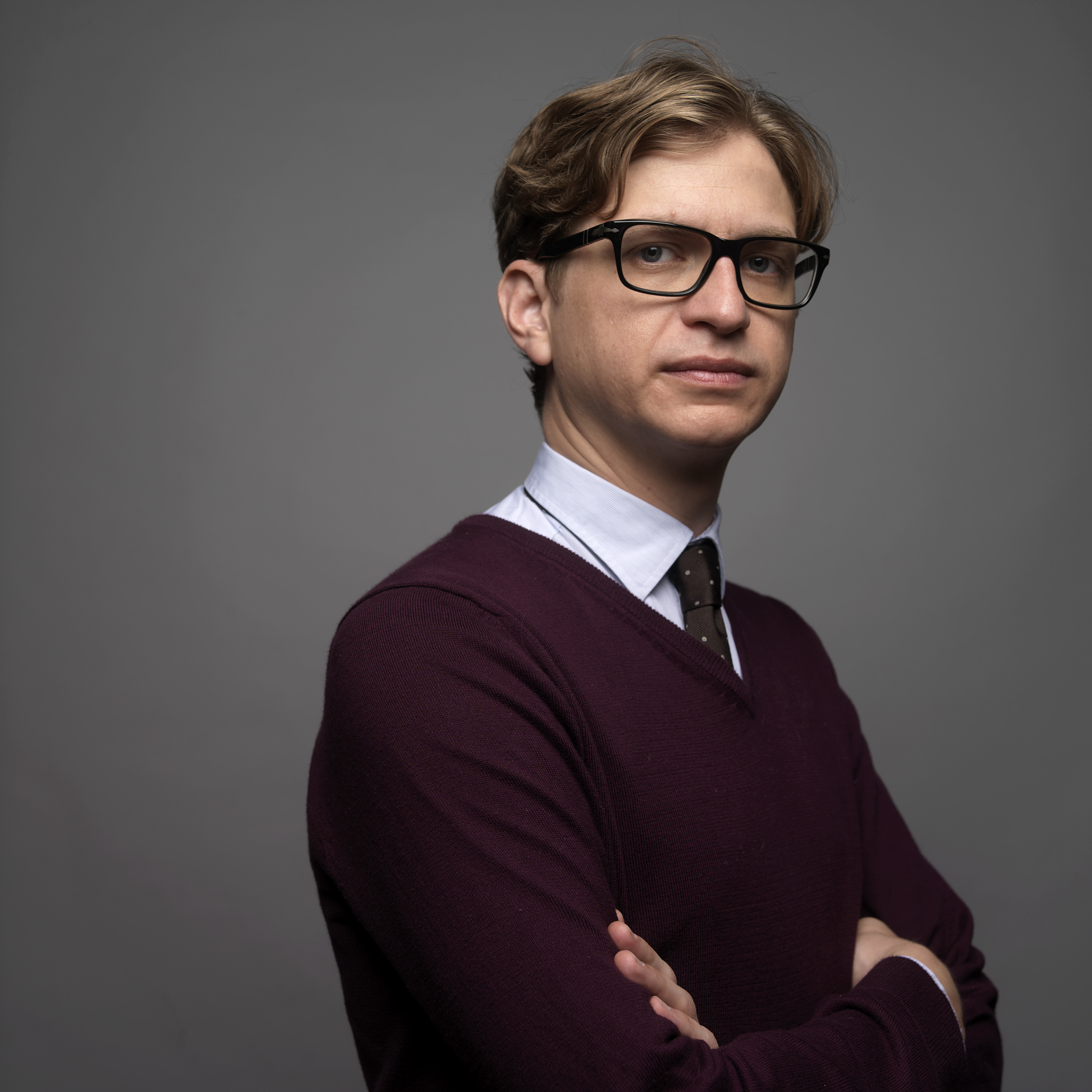 Kieran Long (Attribution 3.0 Unported (CC BY 3.0)